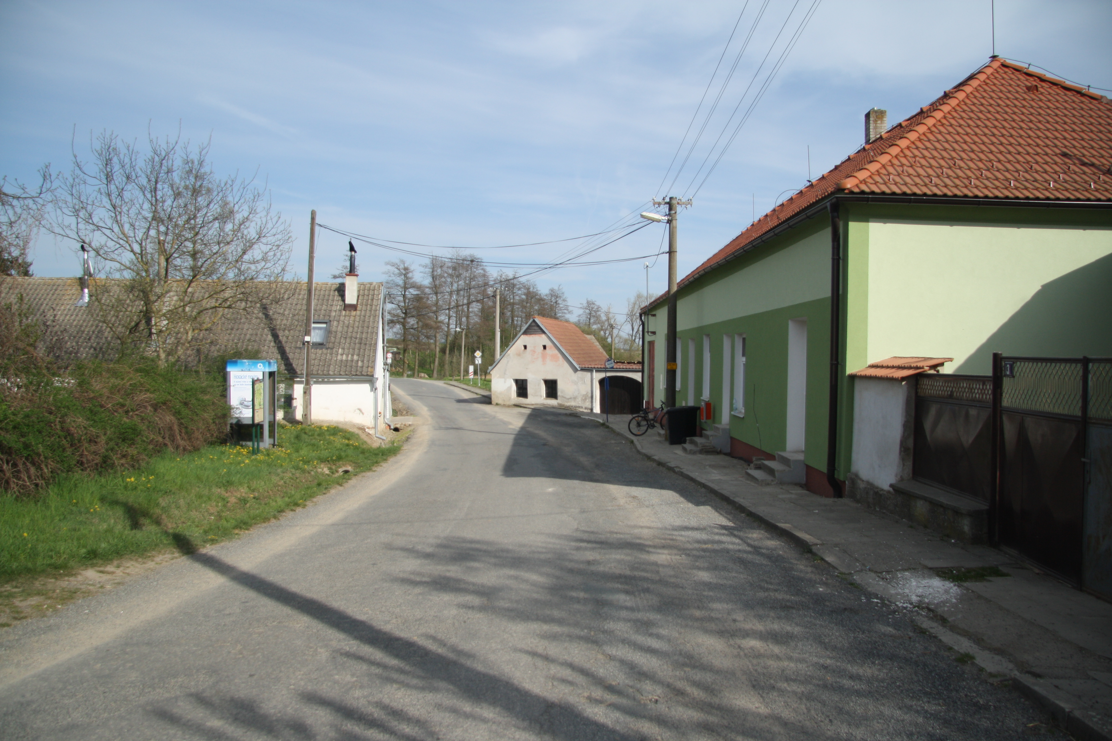 Center of Lesůňky, Třebíč District.